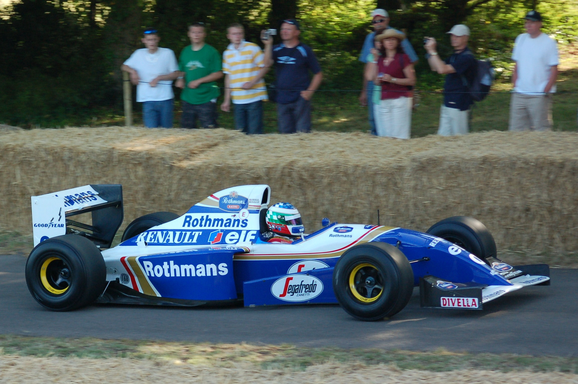 A 1994 Williams-Renault FW16 being demonstrated at the Goodwood Festival of Speed.